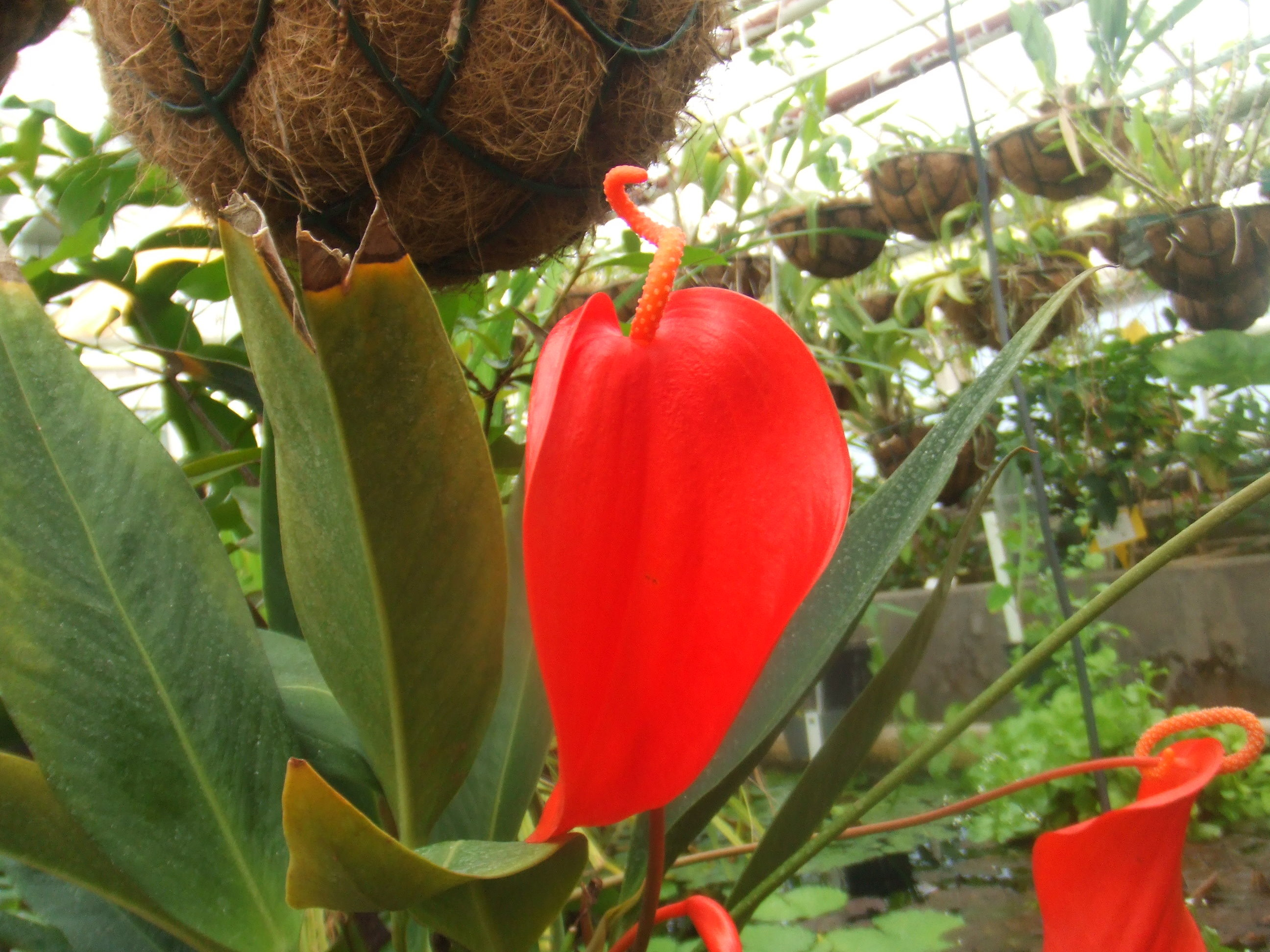 Anthurium scherzerianum, picture taken at the Botanische tuin TU Delft in Delft, The Netherlands